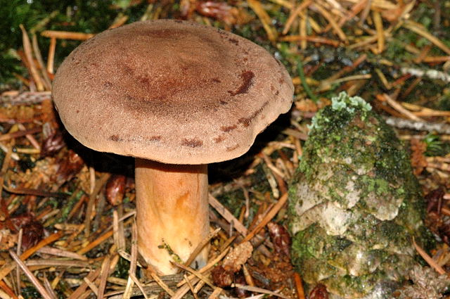 Lactarius spec. from Commanster, Belgium. The determination of the species shown in this picture has been verified.